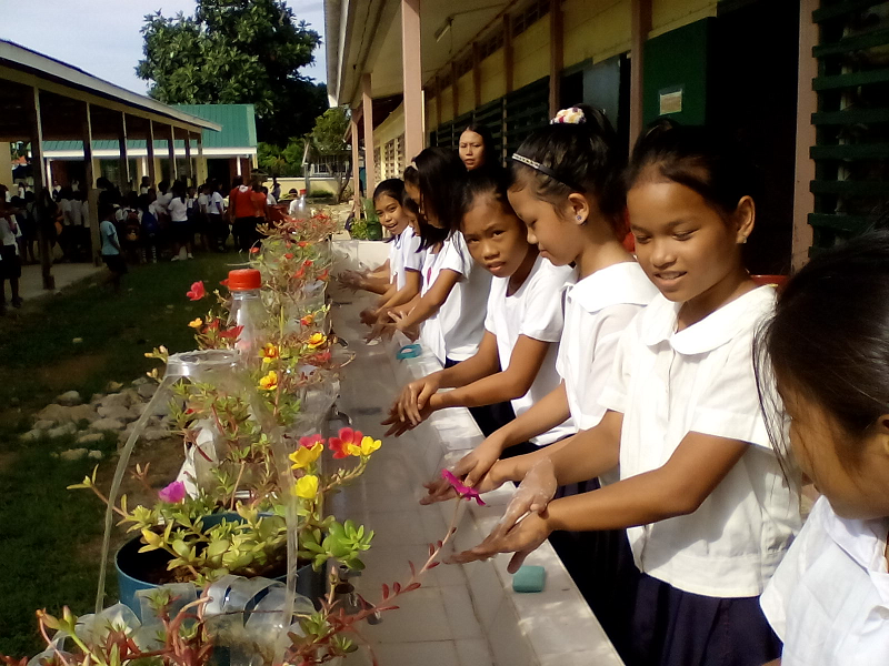 pupils doing the hand washing during the Global Hand washing day celebration 2015